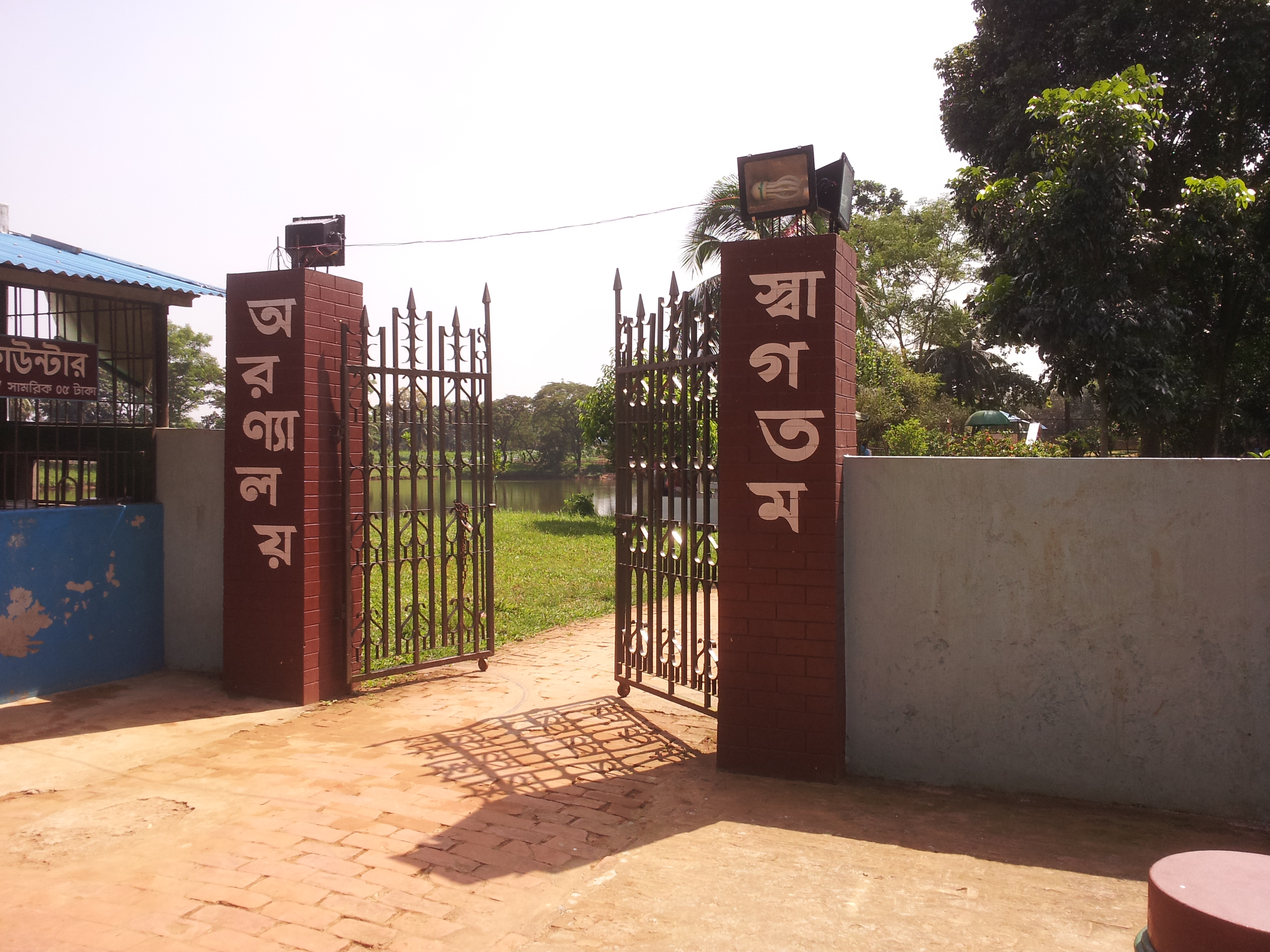 Aranyaloy mini zoo, Savar, Dhaka.